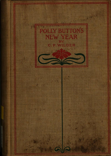 Polly Button's New Year (1892), By Mrs. Charlotte Frances Felt Wilder